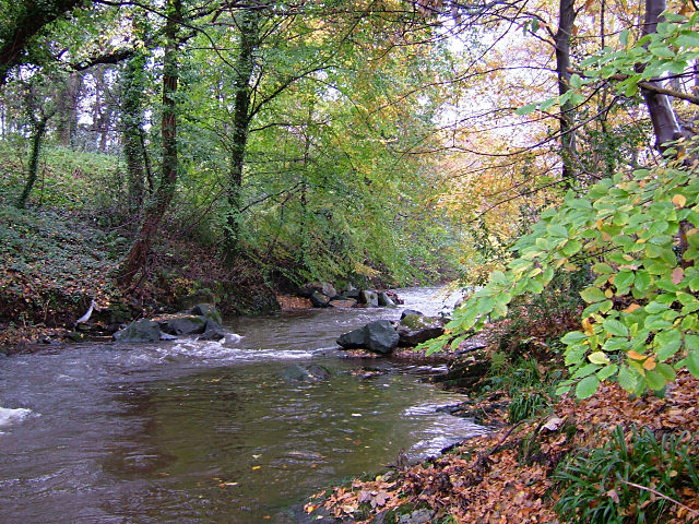 The River Glass - Isle of Man. The River Glass flows down from the Baldwin Valley to the sea at Douglas, pictured here at Tromode.